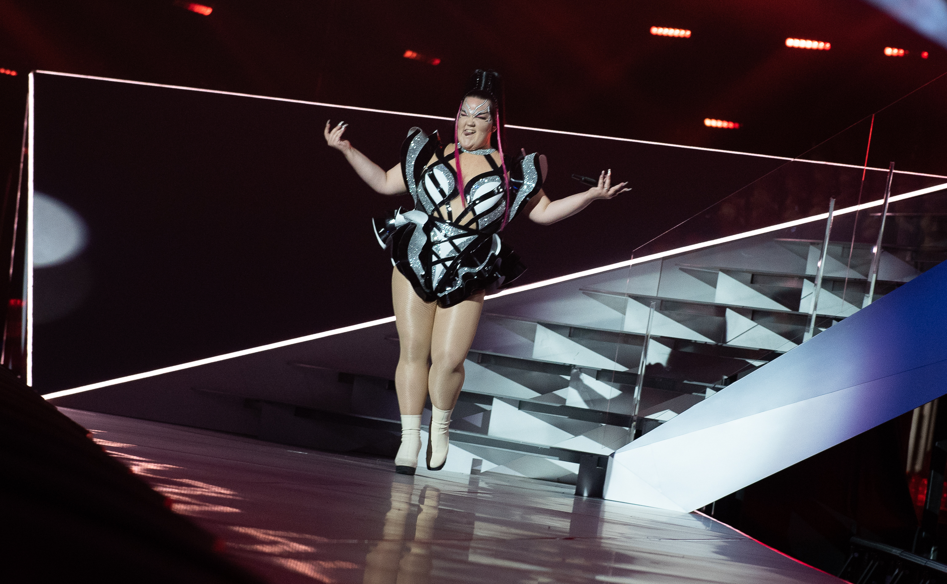 Netta Barzilai at opening ceremony of the Eurovision Song Contest 2019.